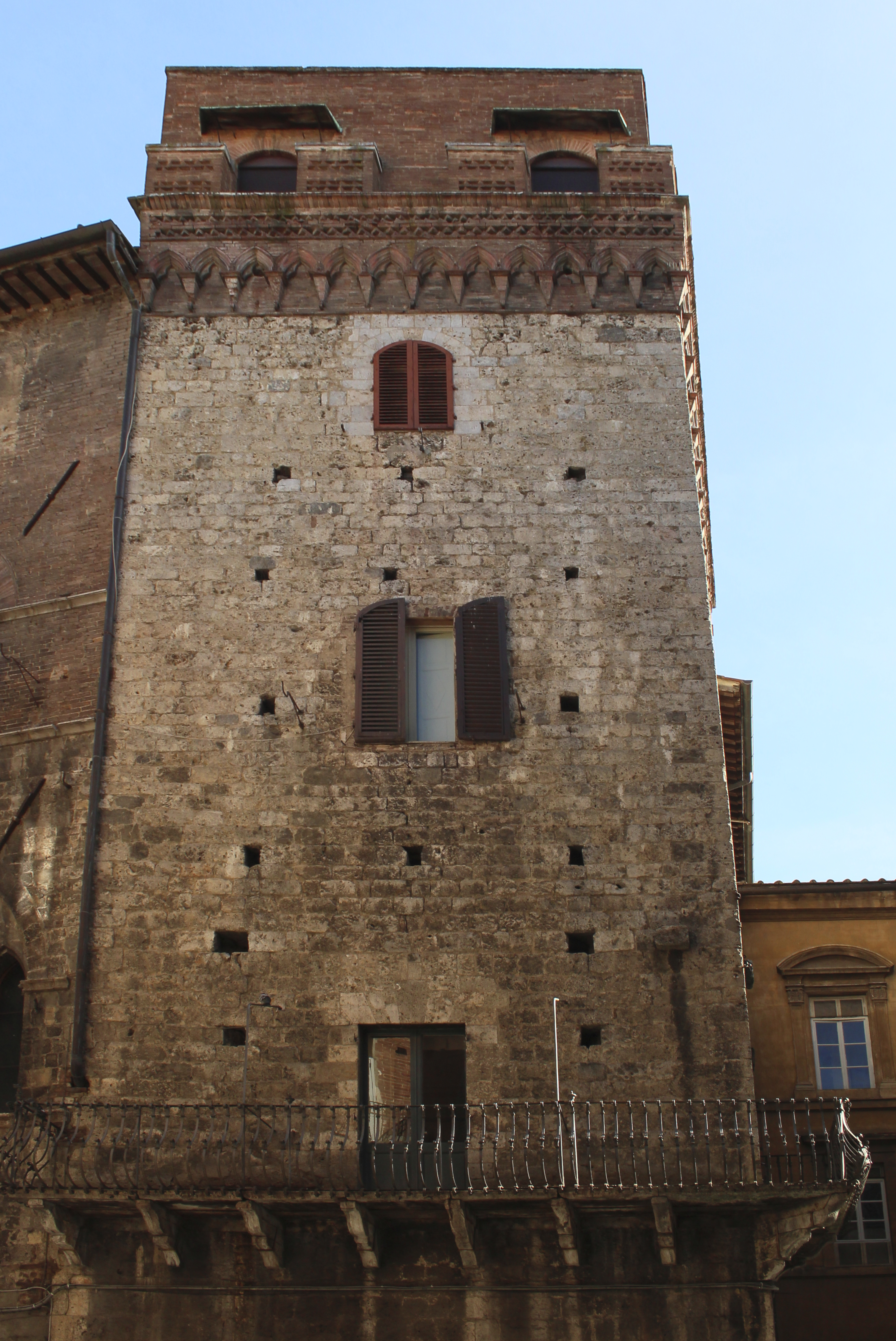 tower Torre di Roccabruna, Croce del Travaglio, Siena, Tuscany, Italy